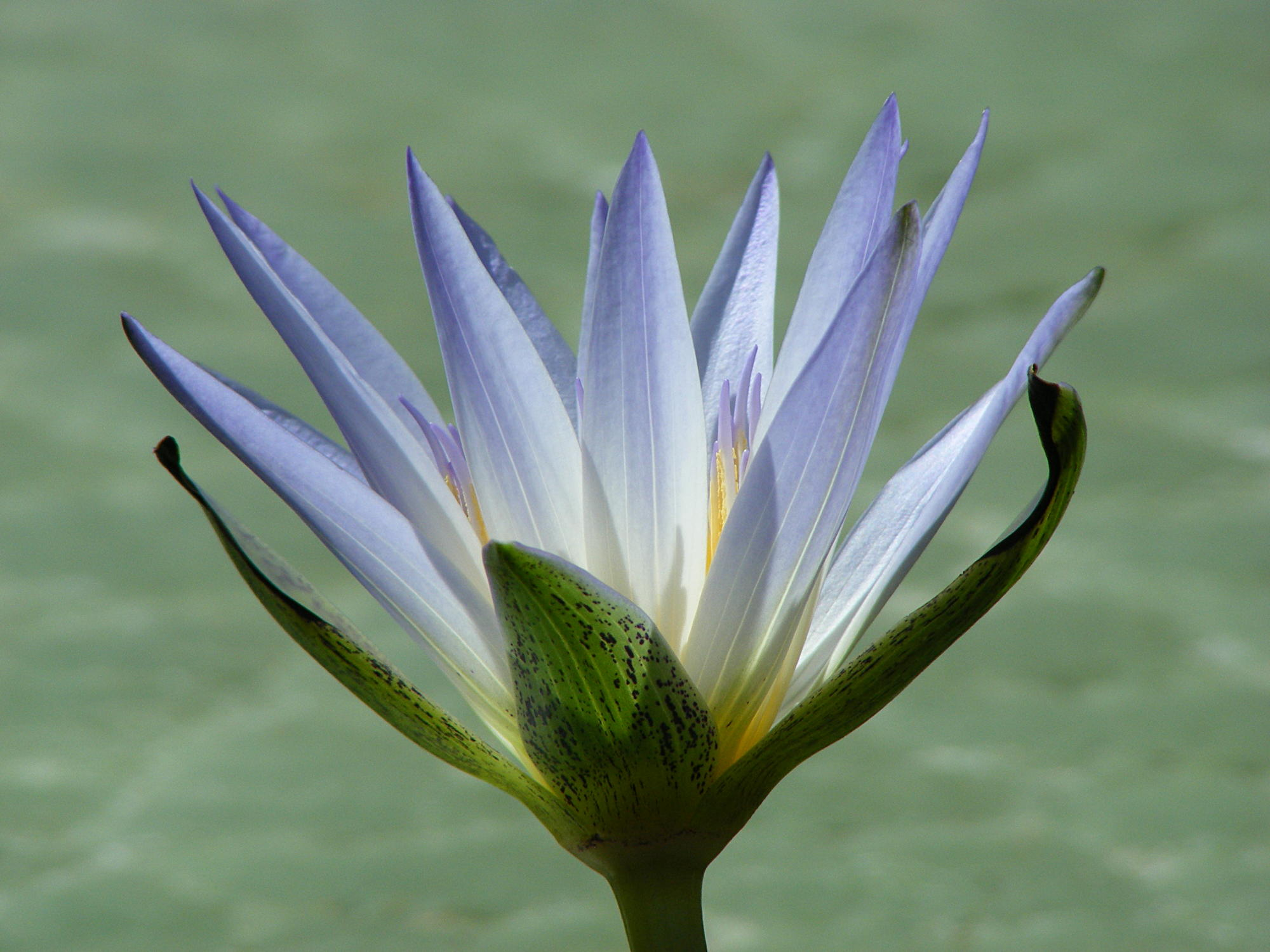 Sacred Blue Water-lily flower (Nymphaea caerulea) with an Amazon Lily forming the background. Botanic Garden, Adelaide, South Australia